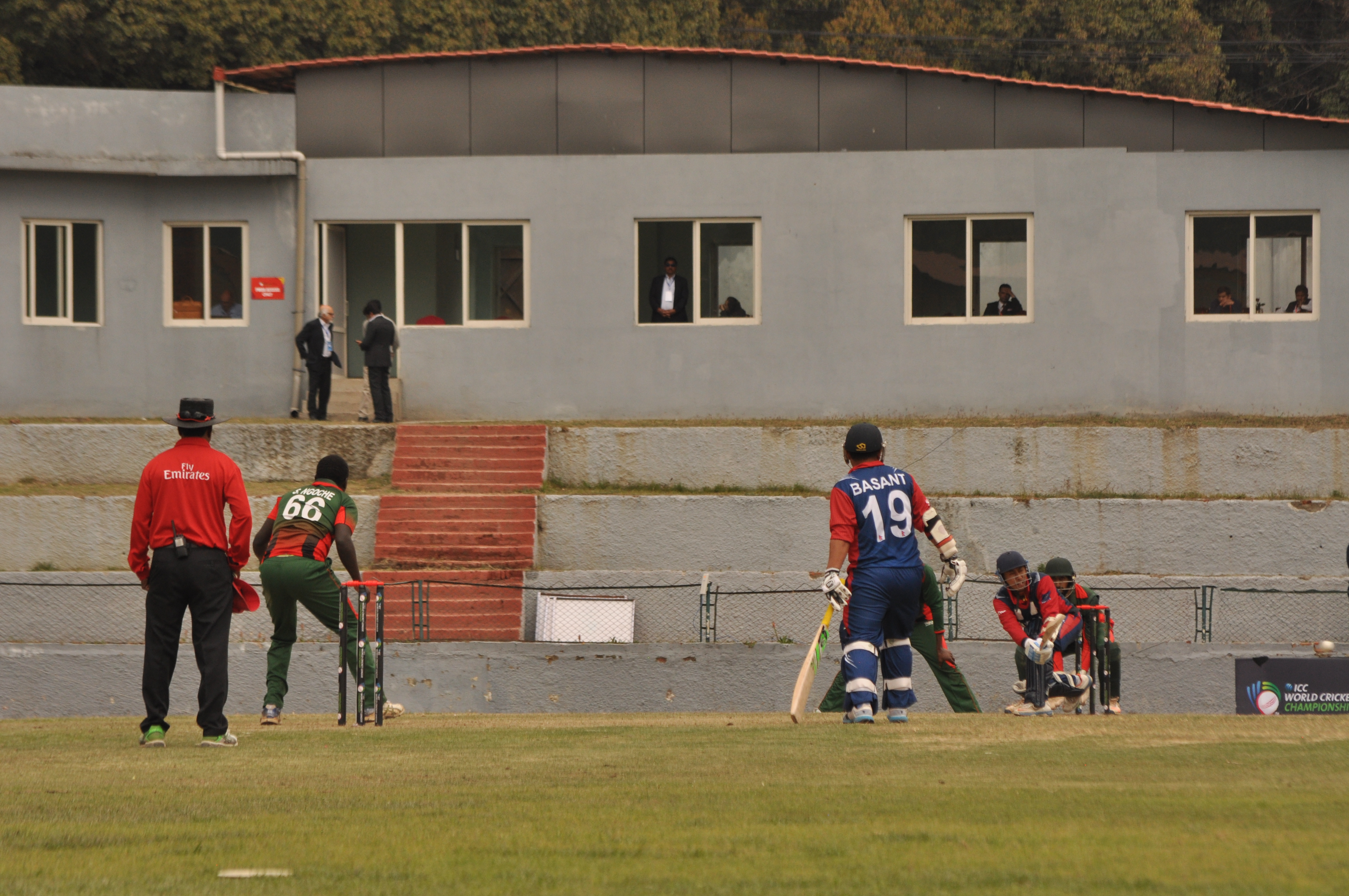 Cricket Match Nepal Vs Kenya 2017/03/13 नेपाली: अाइ सि सि विश्व क्रिकेट लिग अन्तर्गत नेपाल र केन्या बिचकाे खेल- २०७३/११/३०